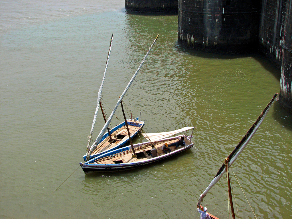 Janjira Fort